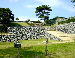 Ruins of Yokosuka Castle, Kakegawa, Shizuoka prefecture Japan